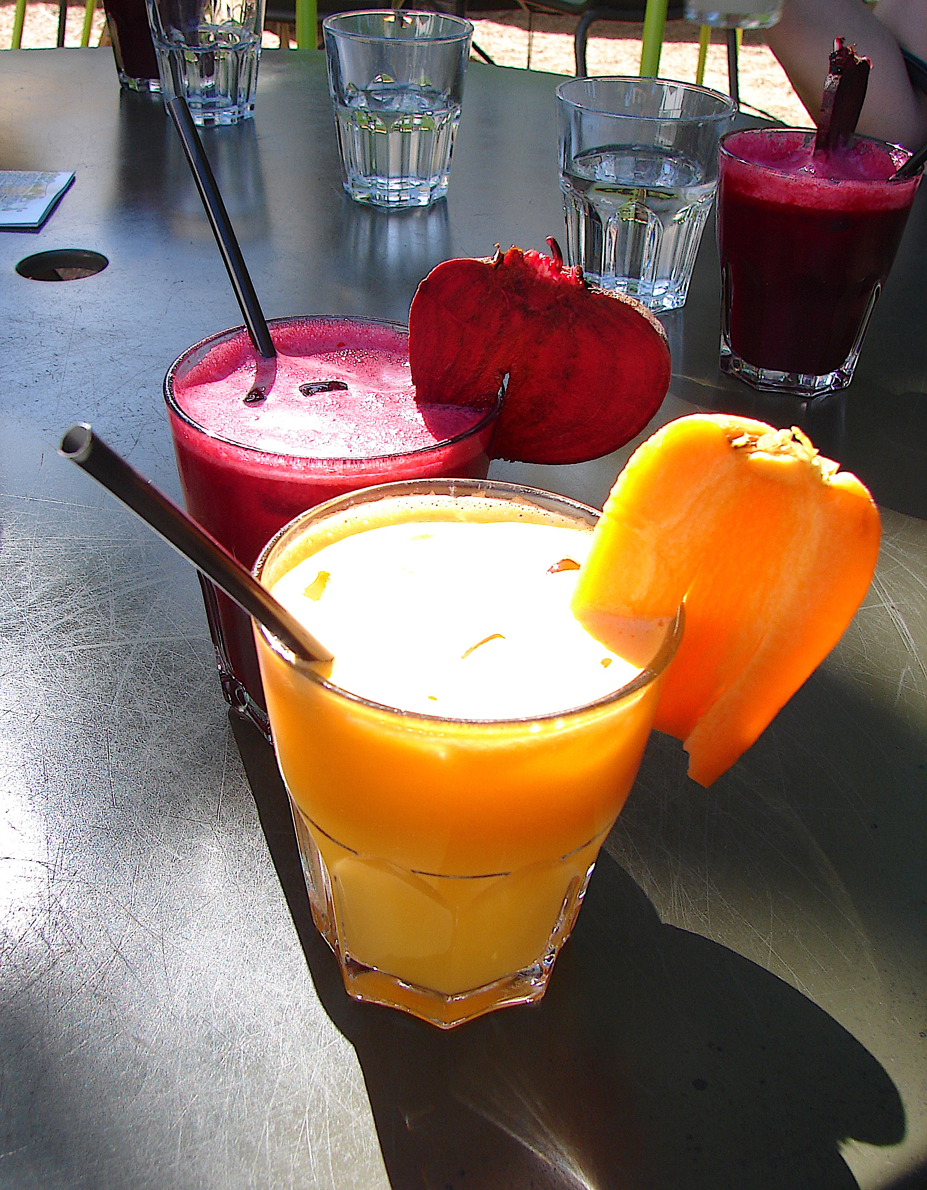 Carrot and Beetroot Juice